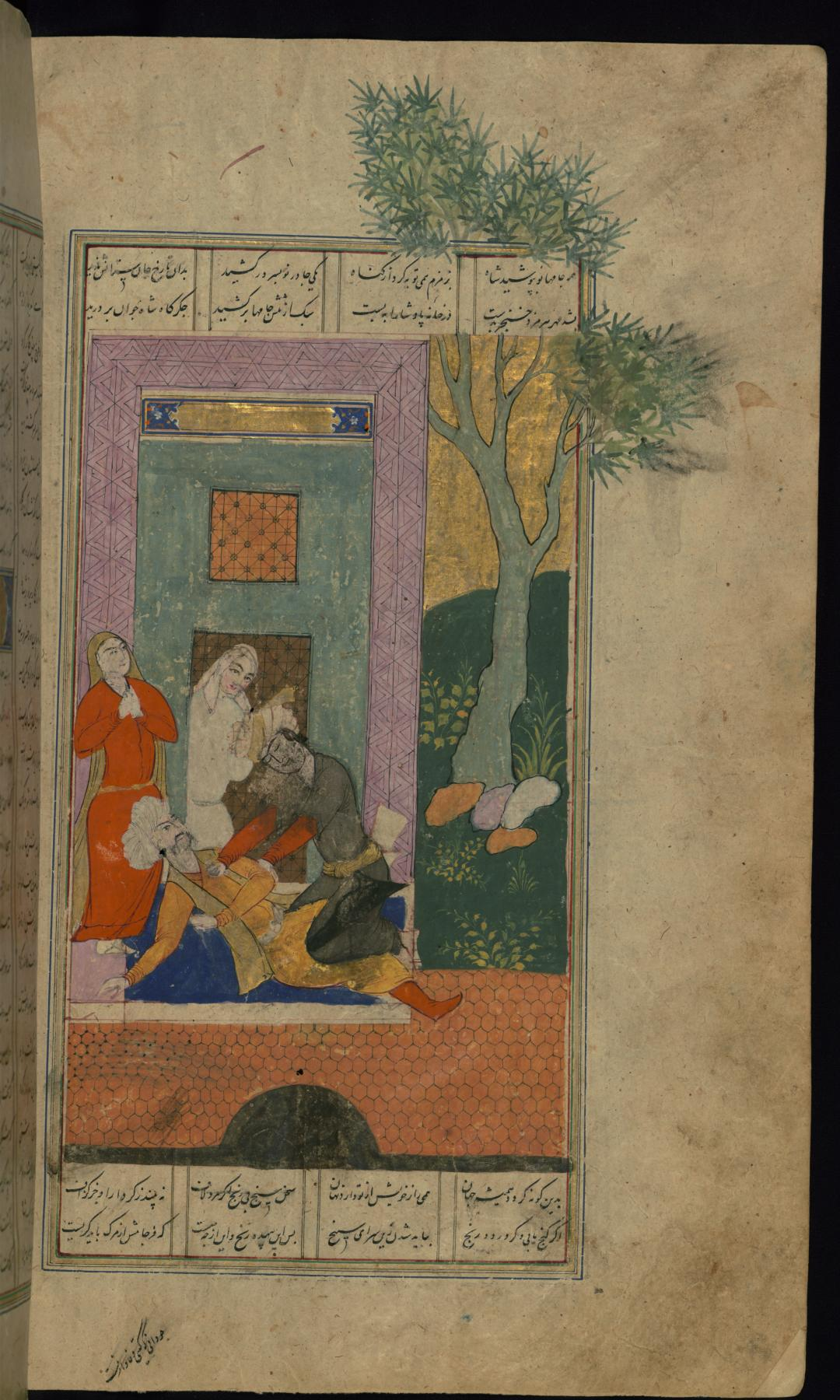 On this folio from Walters manuscript W.603, Mihr Hurmuzd kills Khusraw Parviz.